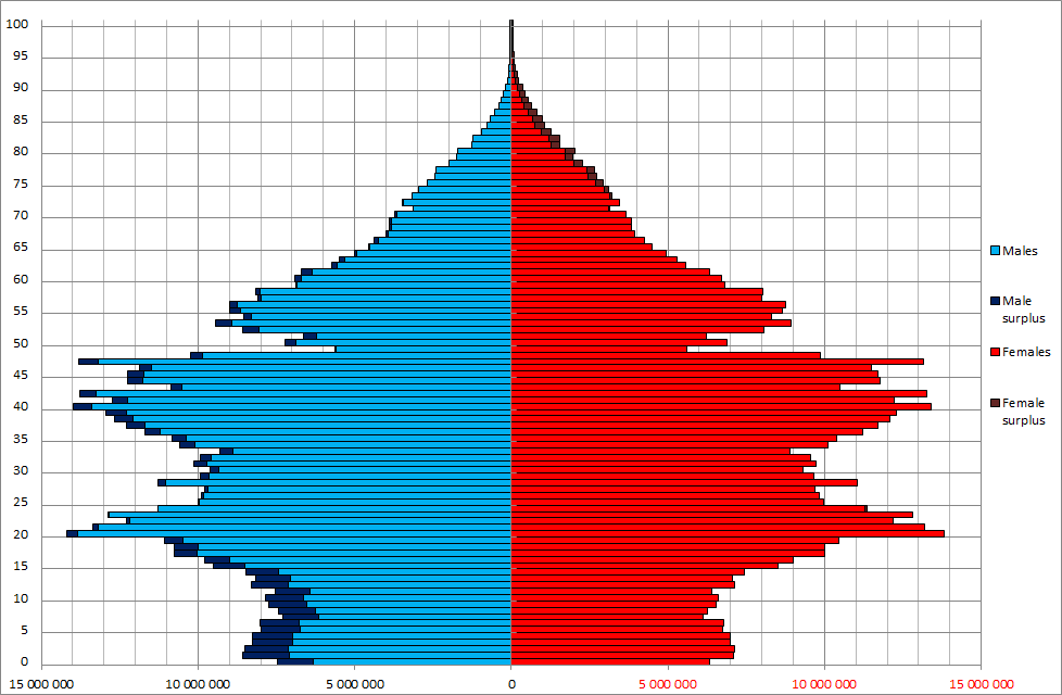 Chinese population by age and sex (demographic pyramid) as of November 1, 2010 (6th national census count)[1][2][3]